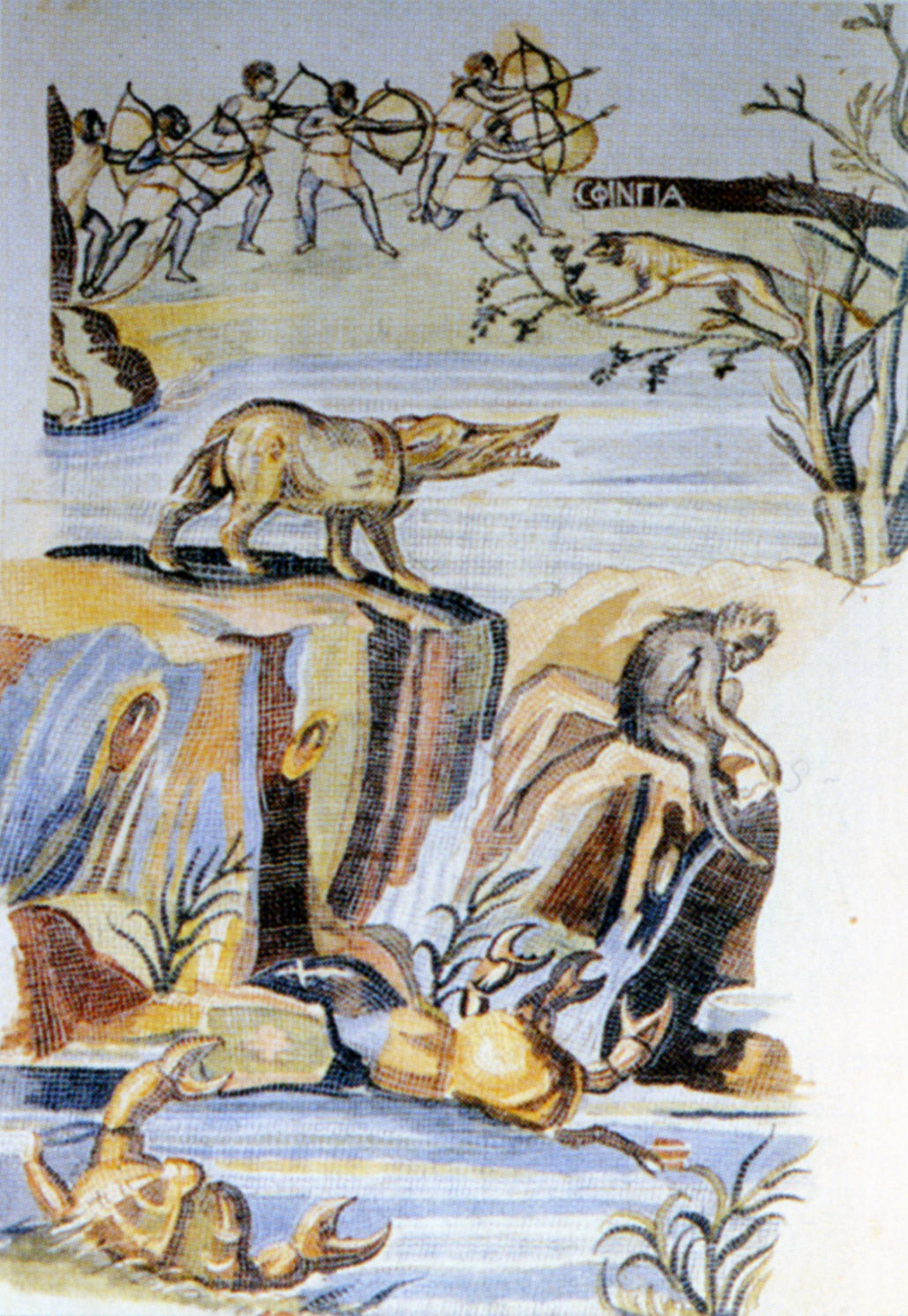 Detail of Nile mosaic from Palestrina (section 2). Copy of Cassiano dal Pozzo (around 1630). The Royal Collection 1994, Windsor castle.